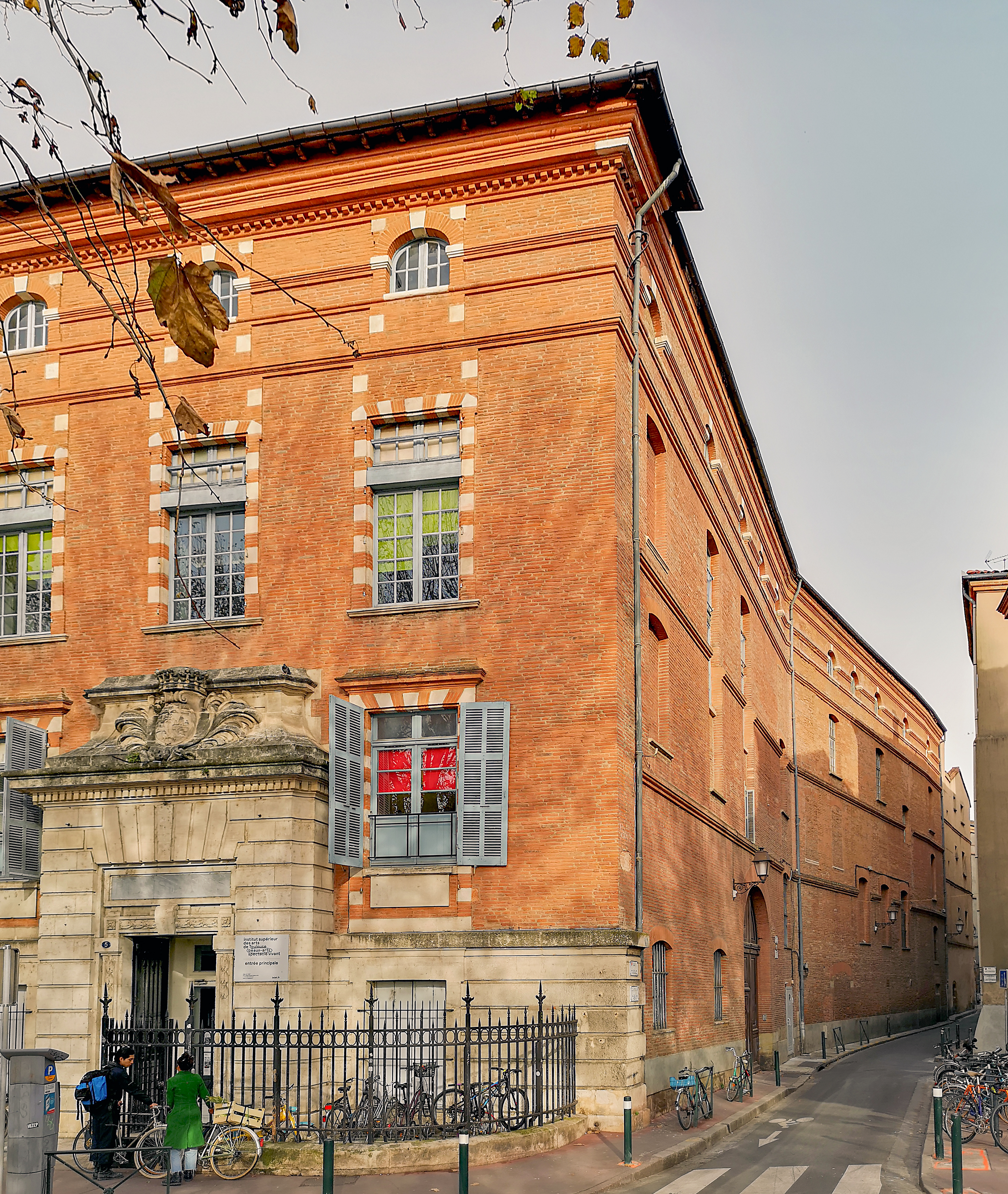 Rue du Tabac (Toulouse) - N° 1-3 : Former priory of the Daurade and former factory of tobacco, today School of Fine Arts of Toulouse.